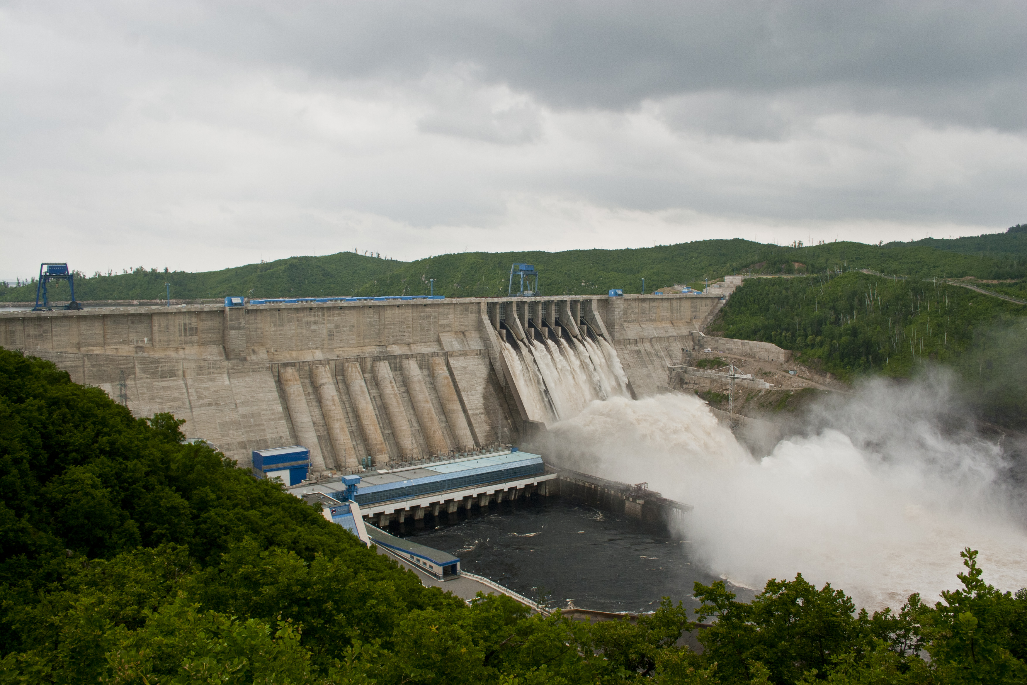 The Spillway of Bureya HPP in work